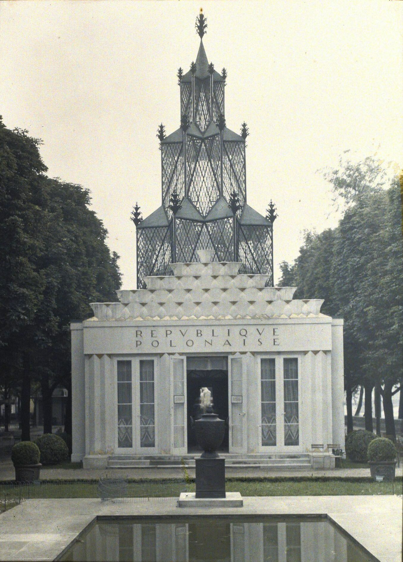 Polish pavilion, example of art déco architecture (architects Józef Czajkowski, Wojciech Jastrzębowski and sculptor Hernyk Kuna and painters Tadeusz Gronowski, Józef Mehoffer and Zofia Stryjeńska won Golden Medals in Paris) at International Exhibition of Modern Decorative and Industrial Arts, Paris, 1925. This Autochrome was not colorized.